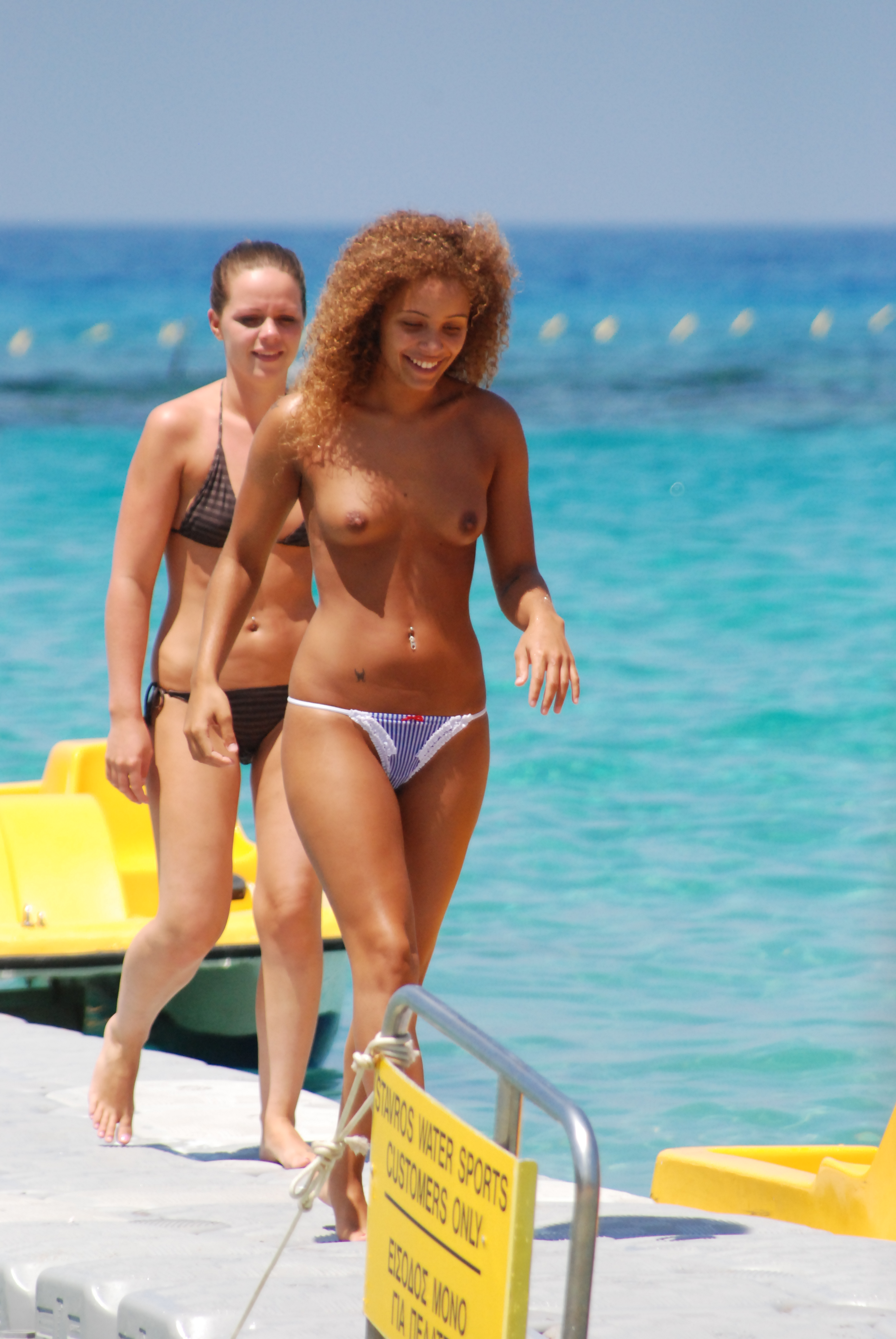 This photo was taken in Ayia Napa, Cyprus Greek Cypriot Rep, CY.